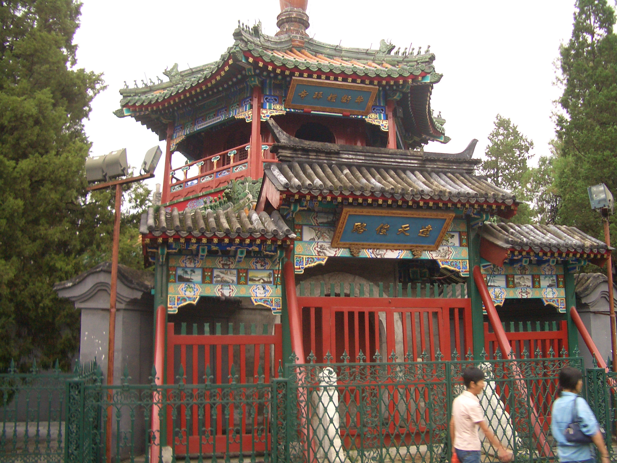 Niujie Mosque, Beijing